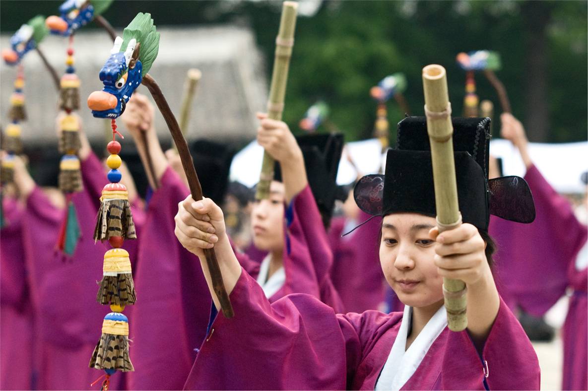 Ancestral Rites at Jongmyo Shrine, Seoul.